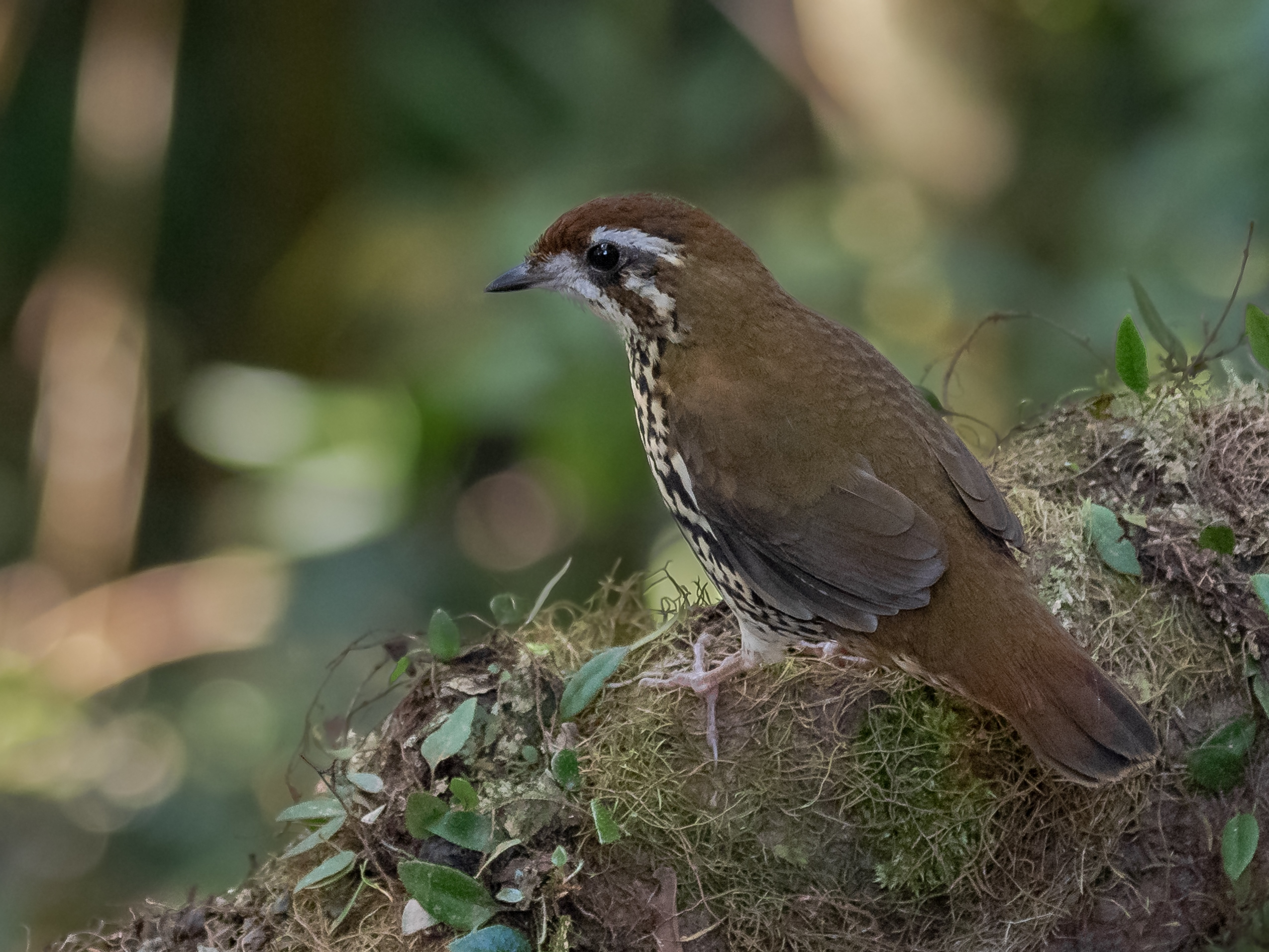 Such's Anttrush; Iporanga, São Paulo, Brazil